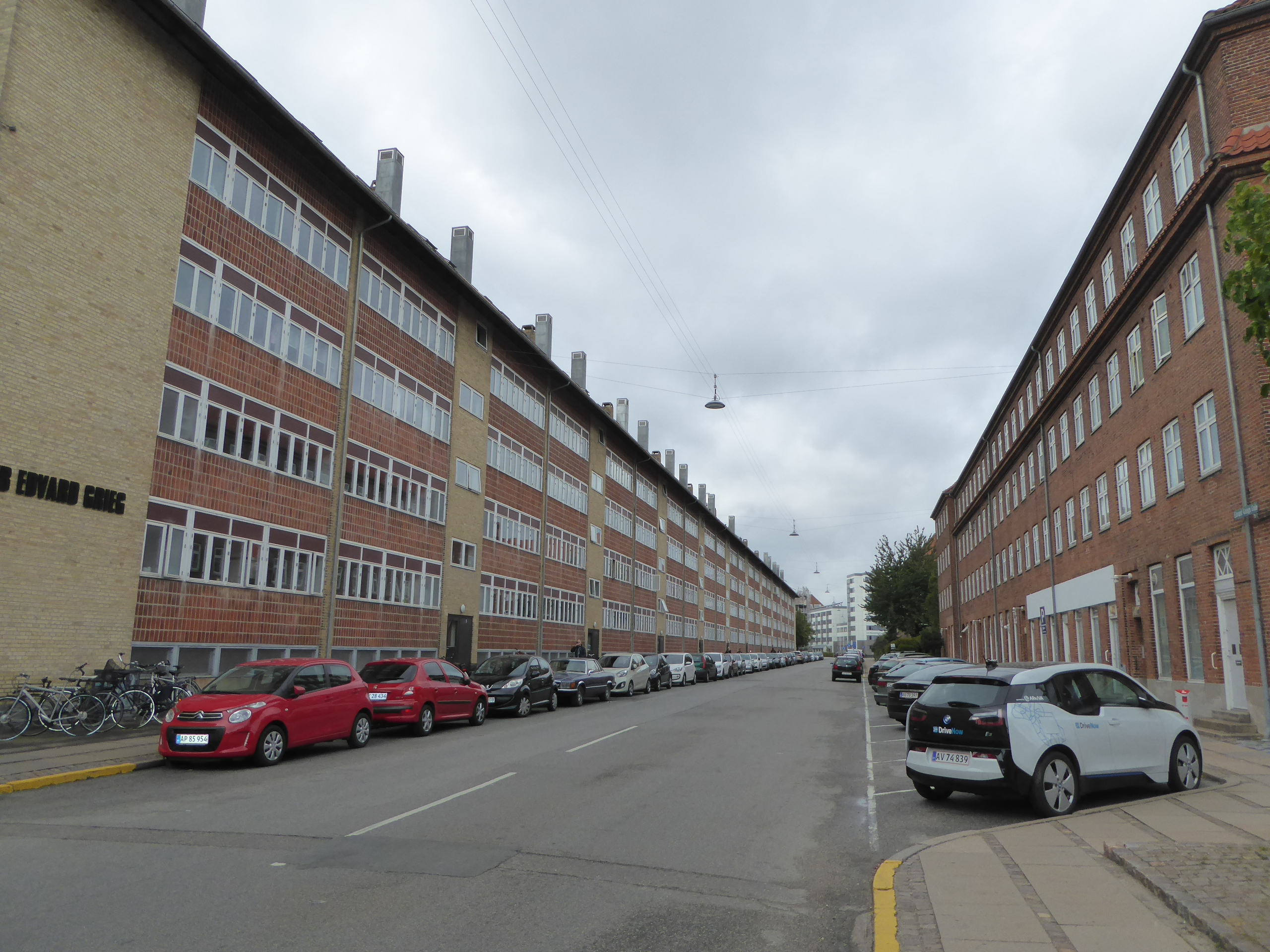 The street Edvard Griegs Gade in Østerbro in Copenhagen. At the left the housing cooperative A/B Edvard Grieg and at the right AAB Afdeling 14.